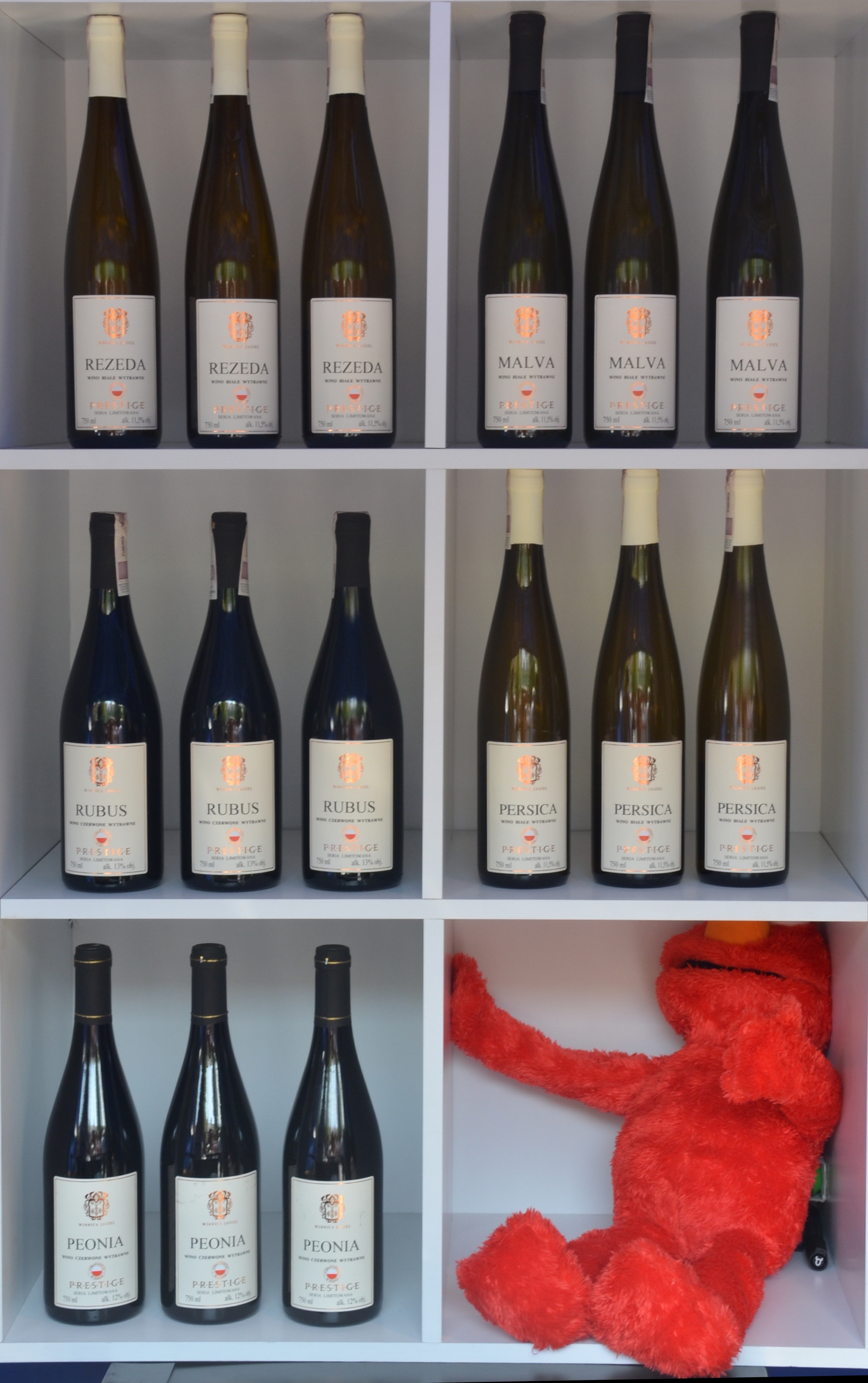 Weine aus Beskiden